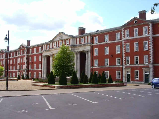 Peninsula Barracks, Winchester. Once the home of The Rifle Brigade. Now contains three regimental museums. The photo shows what once was the parade ground or "Square"